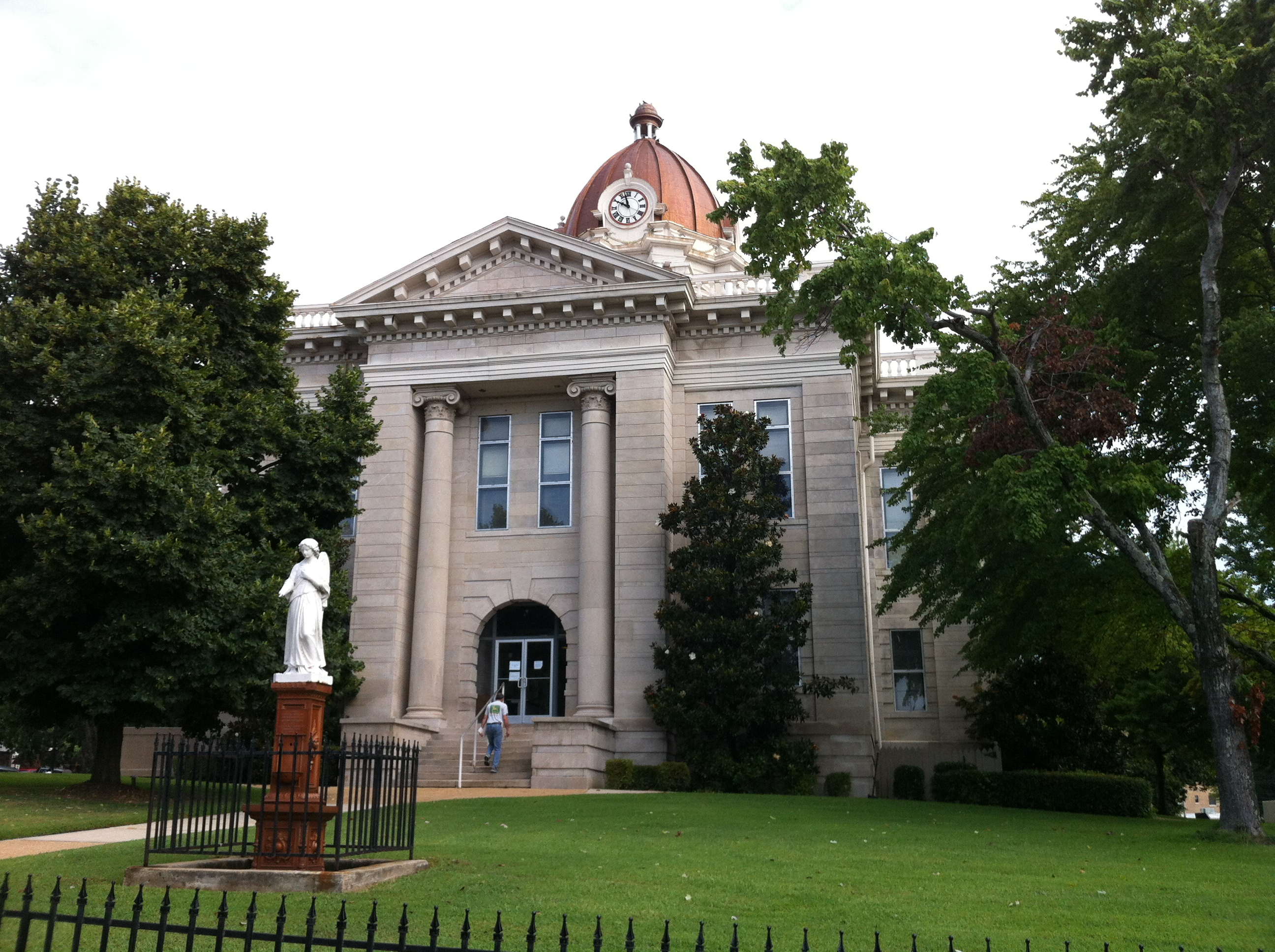 South facade of the Lee County, Mississippi courthouse in Tupelo, Mississippi taken 5 Aug 2013.